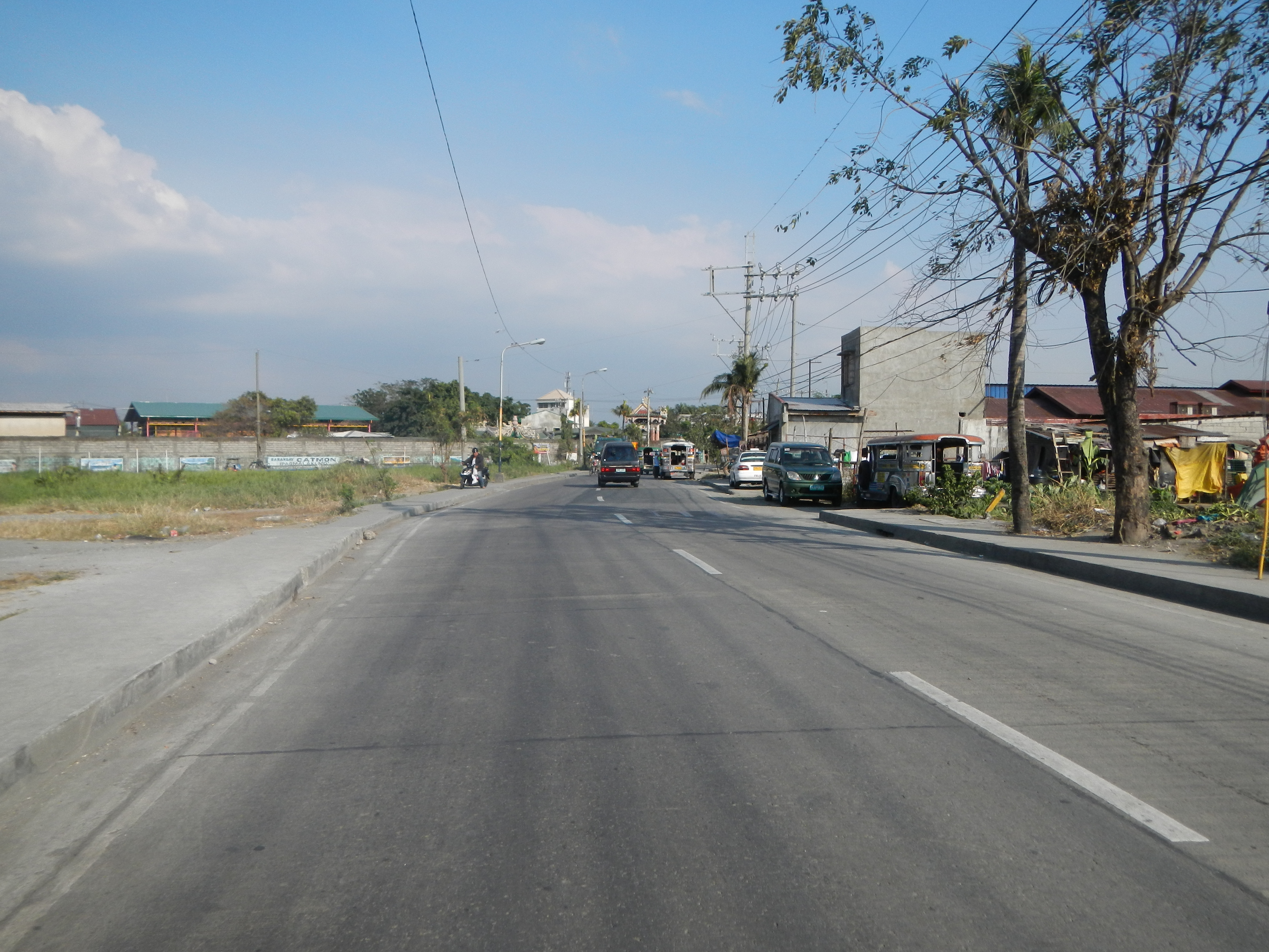 Governor Pascual Avenue (Malabon City) Coordinates: 14°40'13"N 120°57'30"E along Barangays Tinajeros, Catmon to Nyugan, Malabon City.